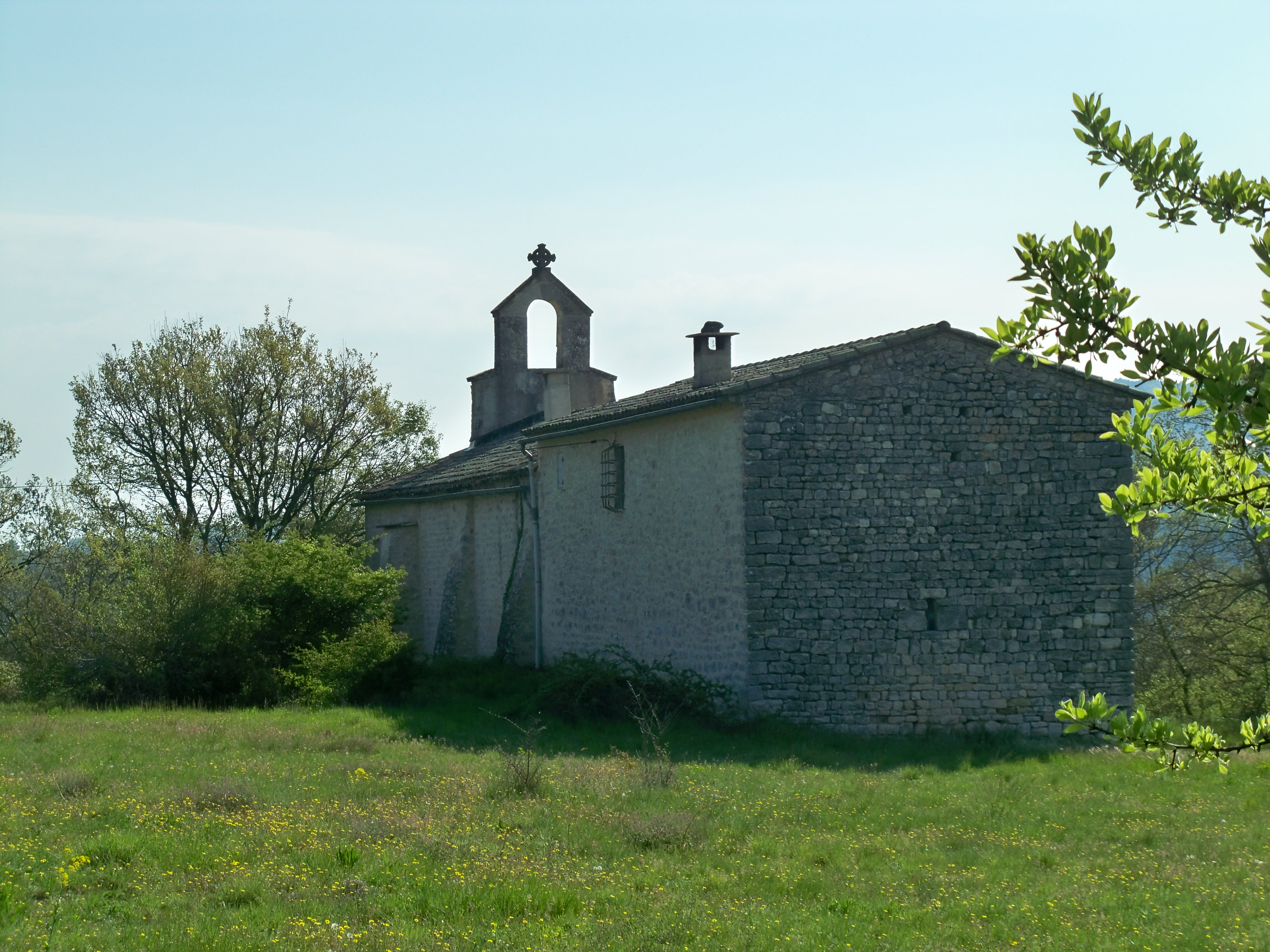 Notre Dame Chapel near Villemus, Alpes de Haute Provence, France